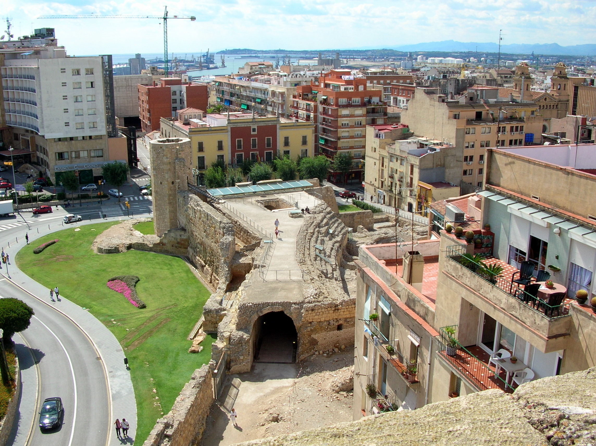 Ruines of Roman circus of Tarraco, Tarragona, Spain